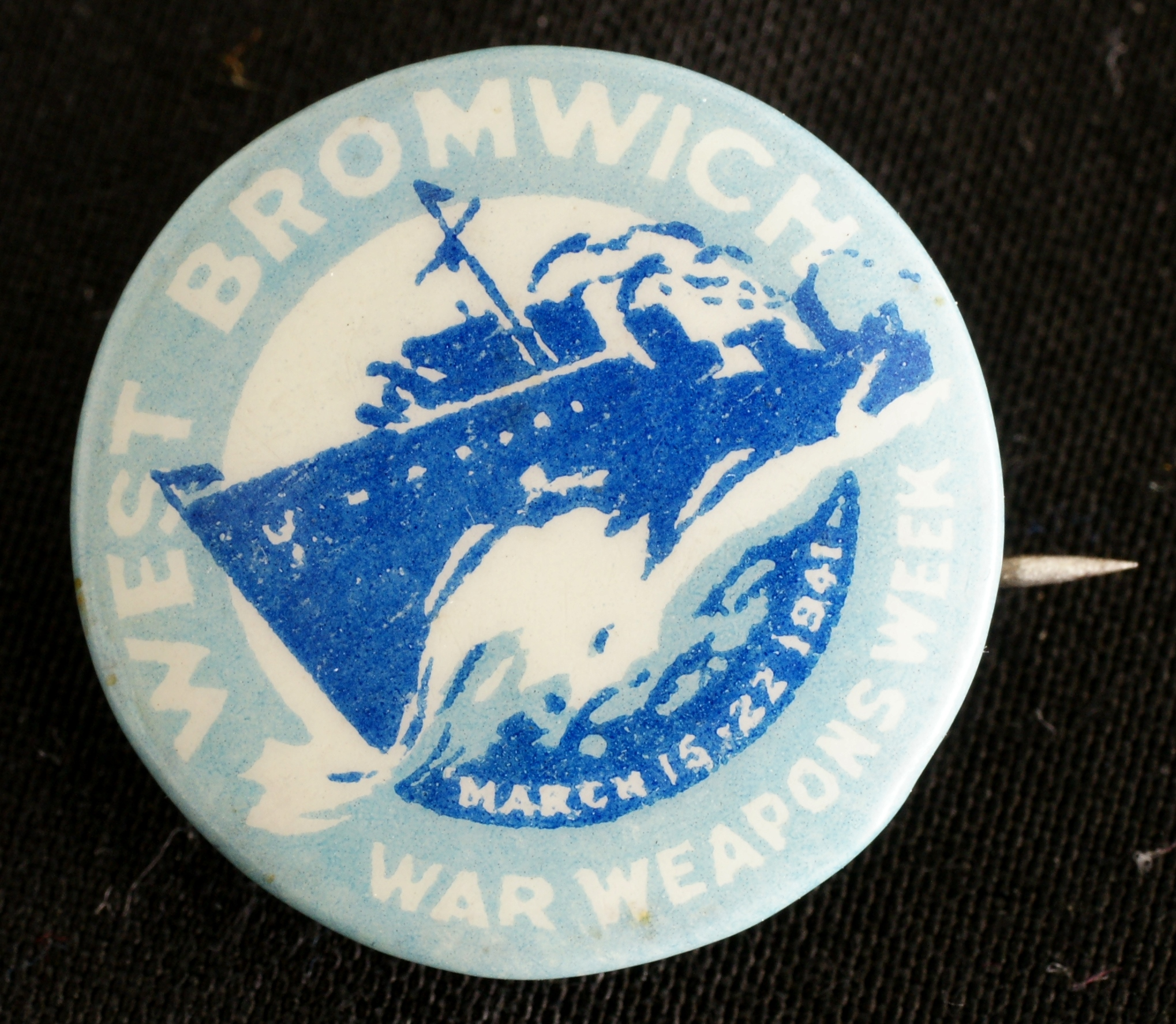 Images from ThinkTank by Sasha Taylor